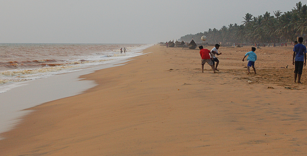 Kids playing soccer at beach. View On Black